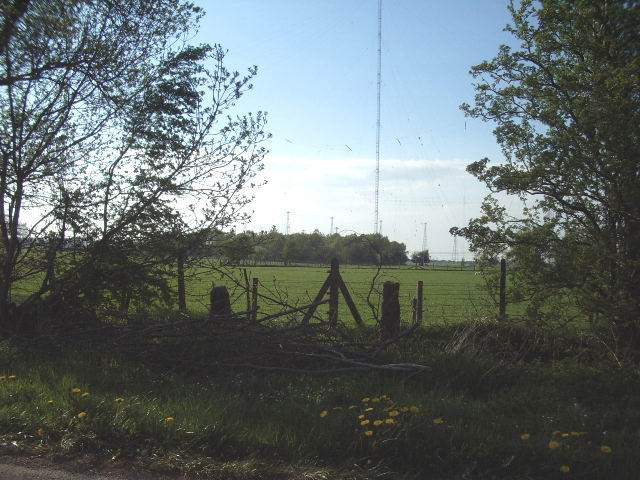 Old gateway. The gate has since rotted away, as this gate would not have been used since the construction of Skelton Transmitting Station, which can be seen in the distance.